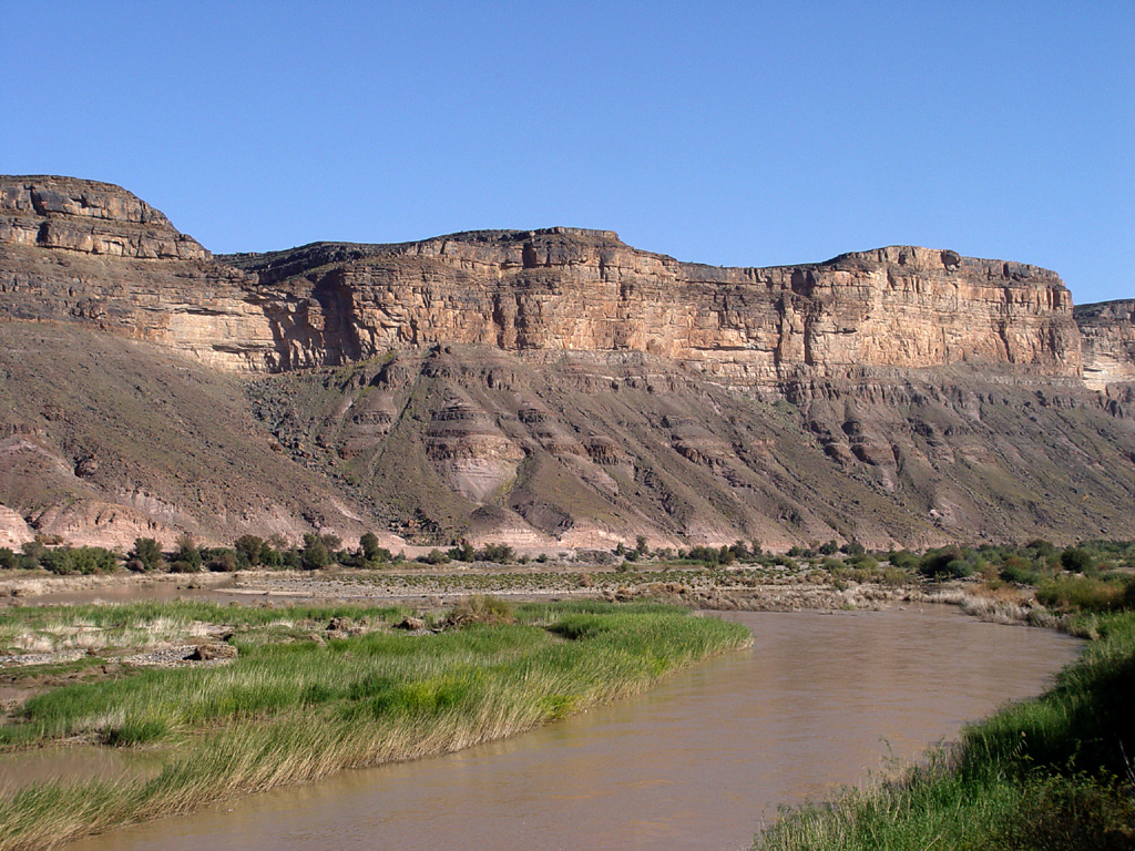 Orange River marks the border between South Africa and Namibia